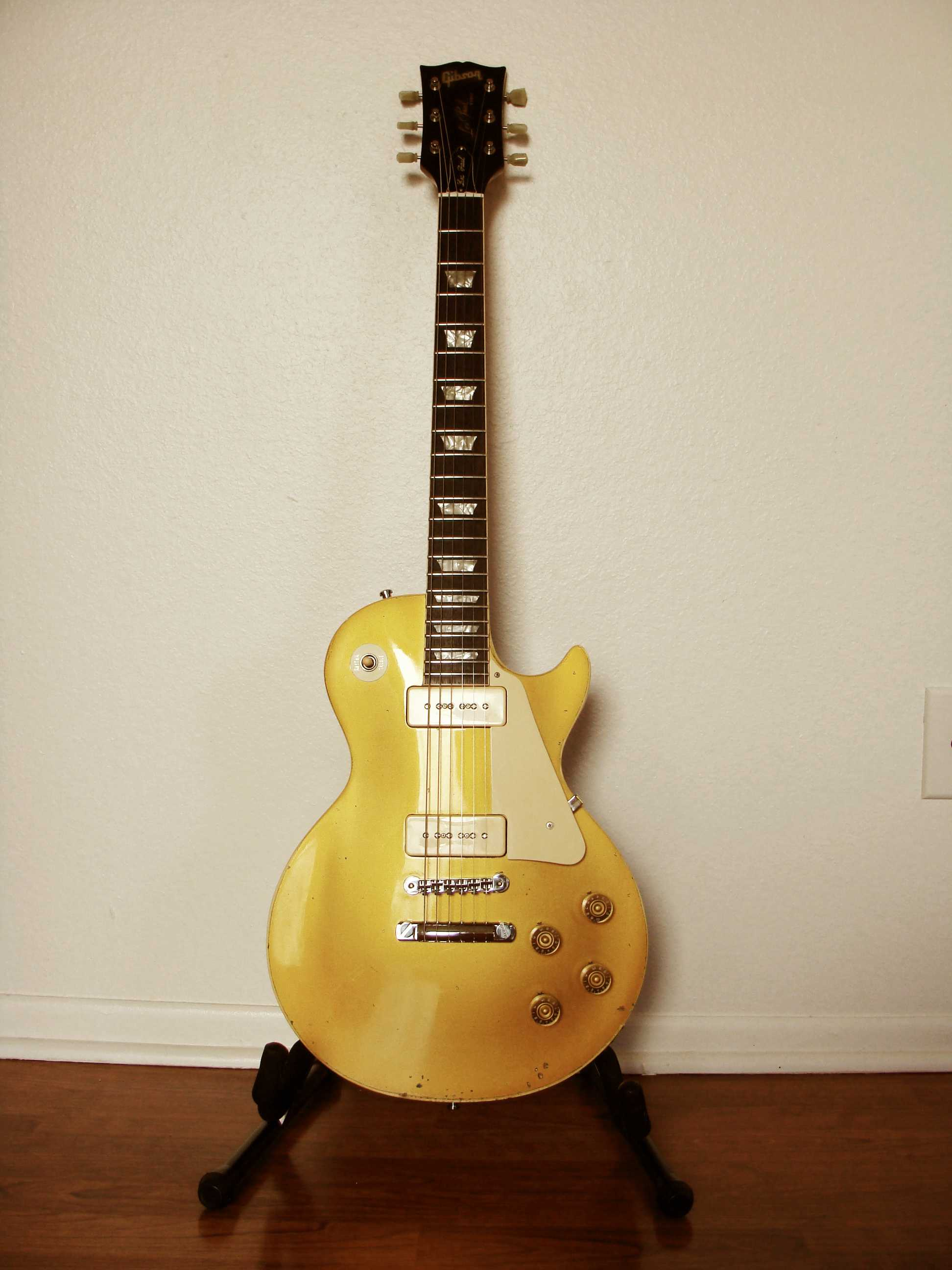 TT Zop Gold Top Retrofit ...and the After shots Polished, gleaming, and ready to be played. base model: 1972 Gibson Les Paul Gold Top 1972 Gibson Les Paul Deluxe “Les Paul” on trussrod cover (not Deluxe) #620310 (raised) MADE IN | U.S.A. (stamped) Pancake body, Honduran mahogany and maple 3-piece top, thick maple 3-piece mahogany neck, super Slim Taper Indian rosewood fingerboard Large headstock (compared to early gold tops) Transitional (short) tenon Mini-Humbucking pickups